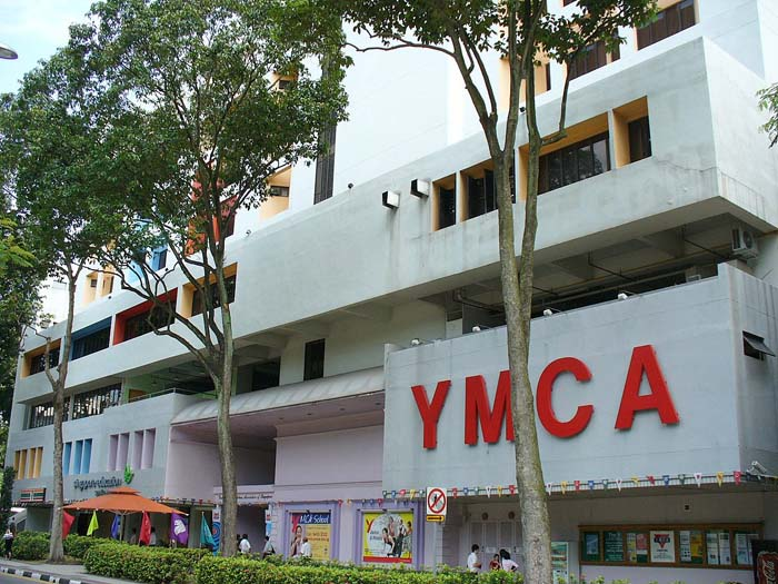 The YMCA building at Stamford Road, Singapore. Its former premises (demolished in 1981) was used as the Kempeitai East District Branch during the Japanese occupation of Singapore.